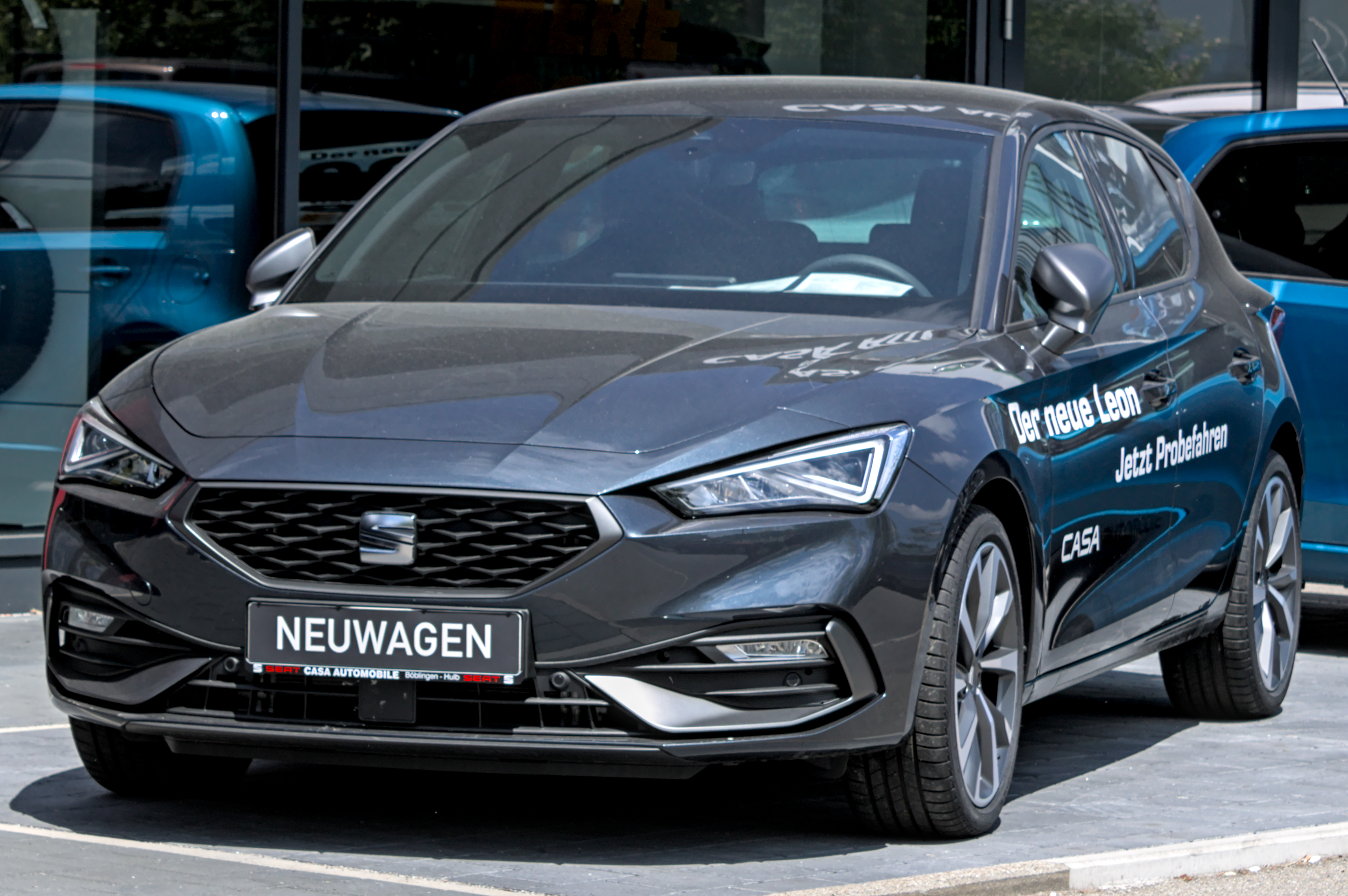 SEAT_Leon_Mk4 in Böblingen